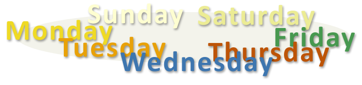 this is a very rough sketch of how i view the days of the week via my spatial-sequence synesthesia. it's a circle, where saturday and sunday are farther away and wednesday is closest to me. it's really hard to depict this properly. =/ the days are also colored based on how they are colored to me (via my grapheme-color synesthesia). this is not necessarily how the actual words look to me, just the DAYS.